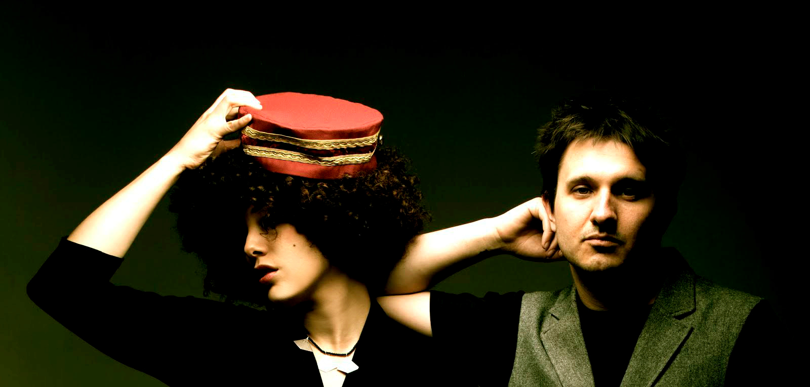 It was taken in 2010 before The Sonar Music Festival in Barcelona